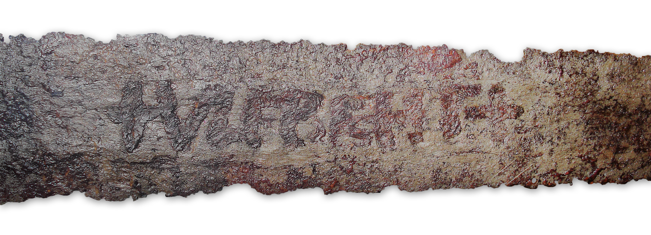 Spatha, an Ulfberht sword, from the Rhine at Mannheim, 1st half of the 9th century, displayed at the Germanisches Nationalmuseum, Nuremberg.